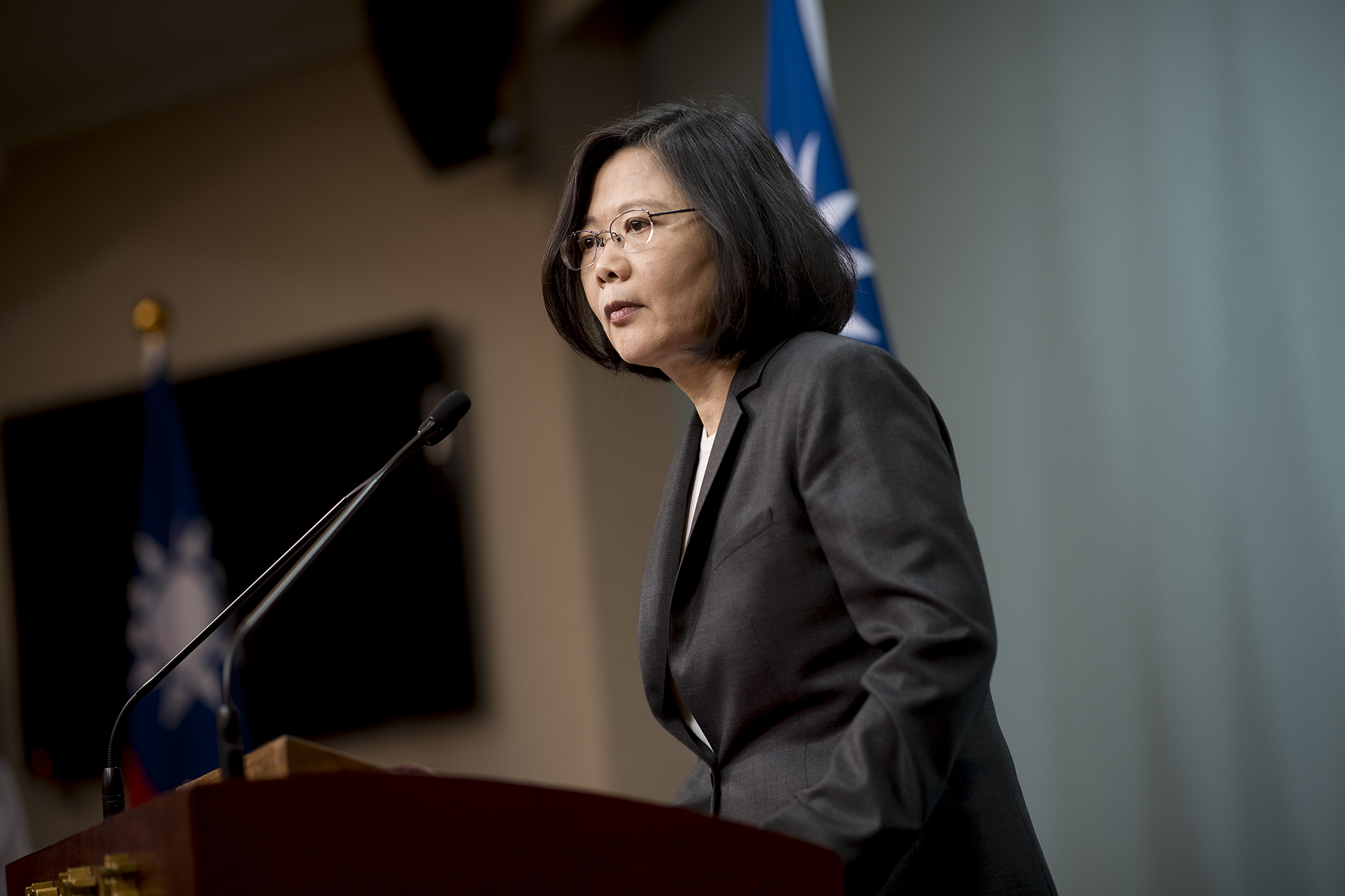 授權方式及範圍：中華民國總統府│政府網站資料開放宣告 Authorization Method & Scope: Office of the President, Republic of China (Taiwan) | Government Website Open Information Announcement